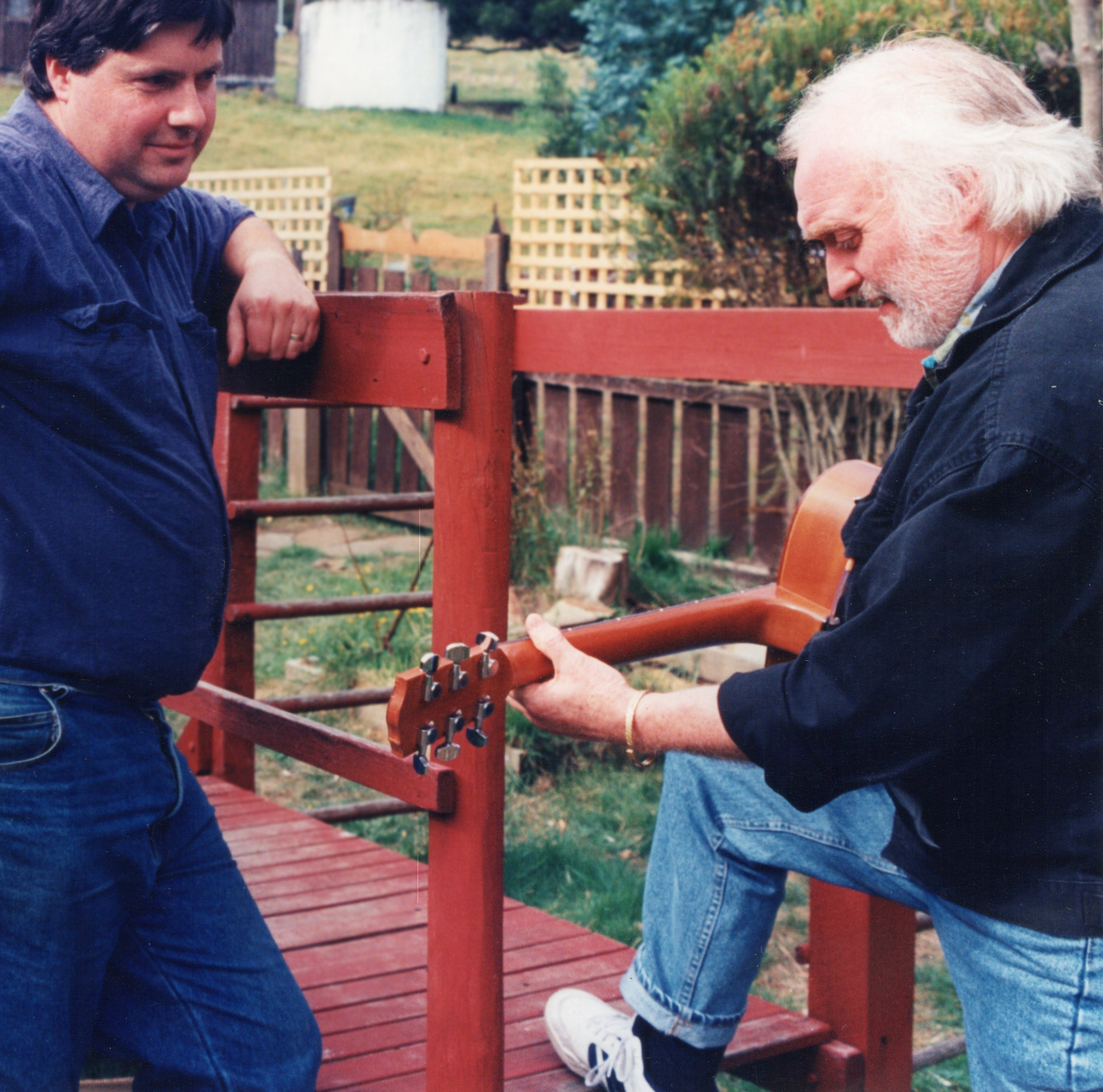 Martyn Wyndham-Read (UK folk musician) with John Bushby, Tasmania, 1995 (Tony Rees photograph)